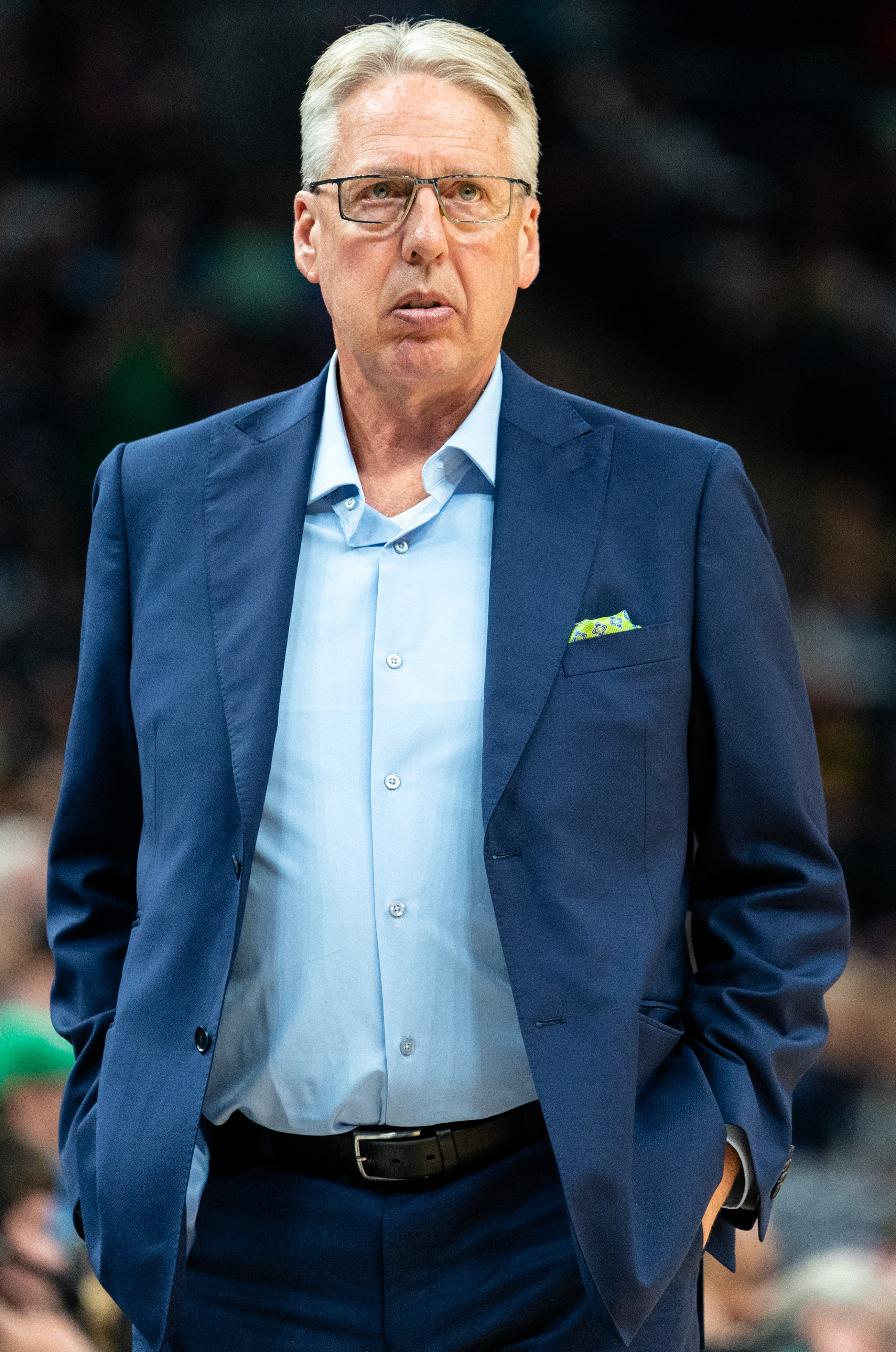 Dallas Wings head coach Brian Agler on the sidelines in a game against the Minnesota Lynx